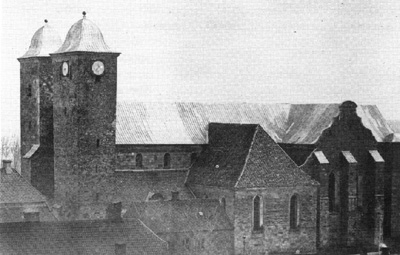 Viborg Cathedral with its baroque appearance before the restoration beginning in 1864 under N.S. Nebelong's leadership. Photo in Danmarks Kunstbibliotek.